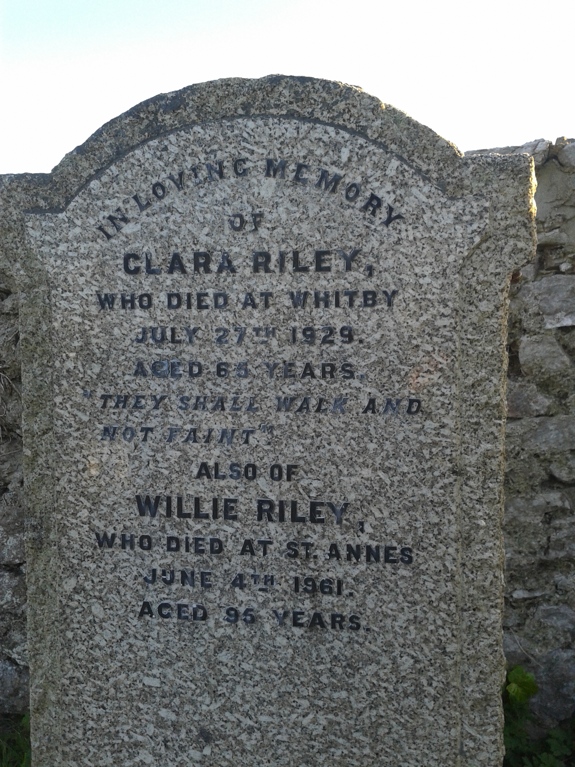 Gravestone of Willie Riley and his first wife Clara in village graveyard of Silverdale, Lancashire, England